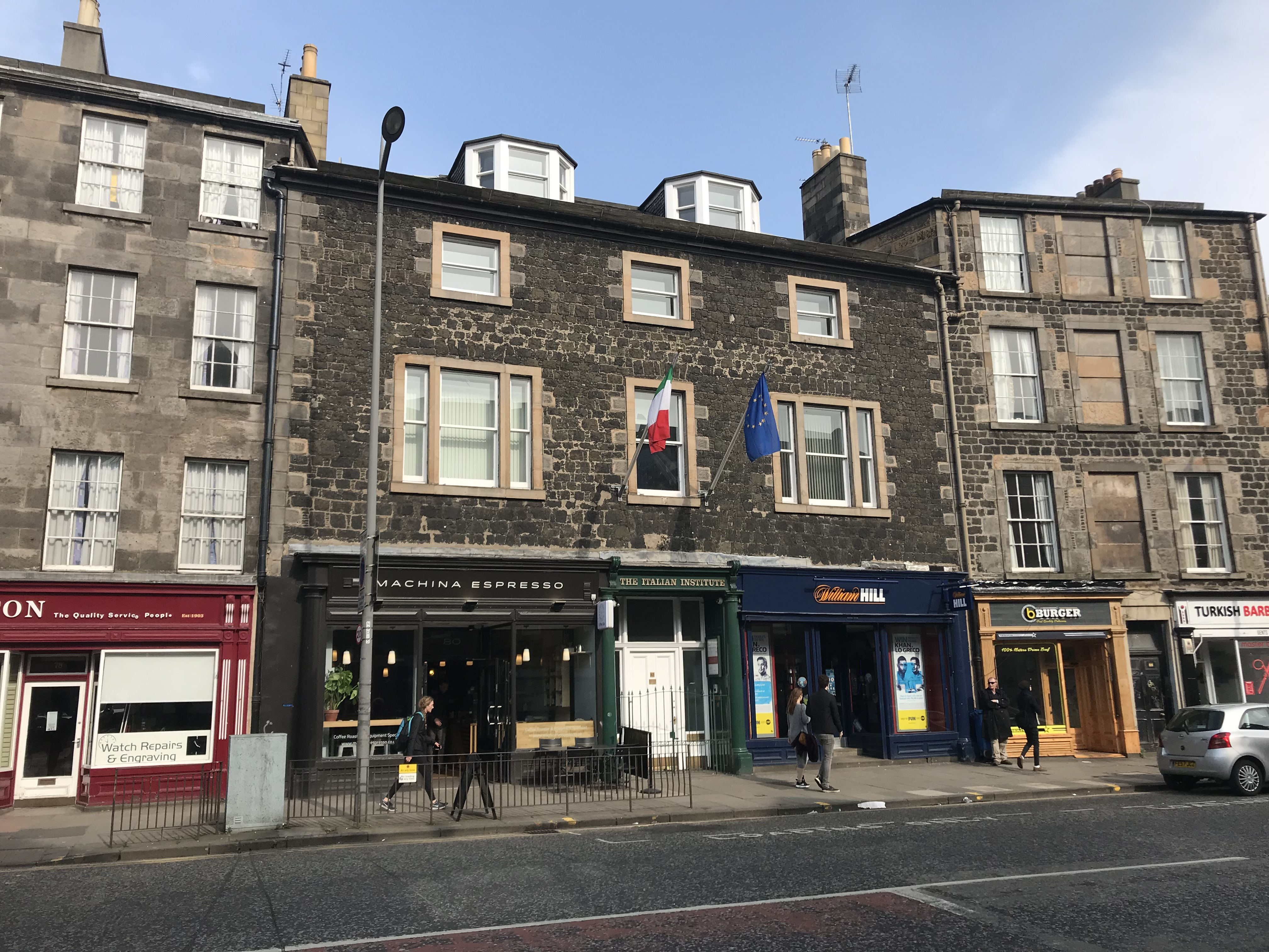 Italian Cultural Institute of Edinburgh.